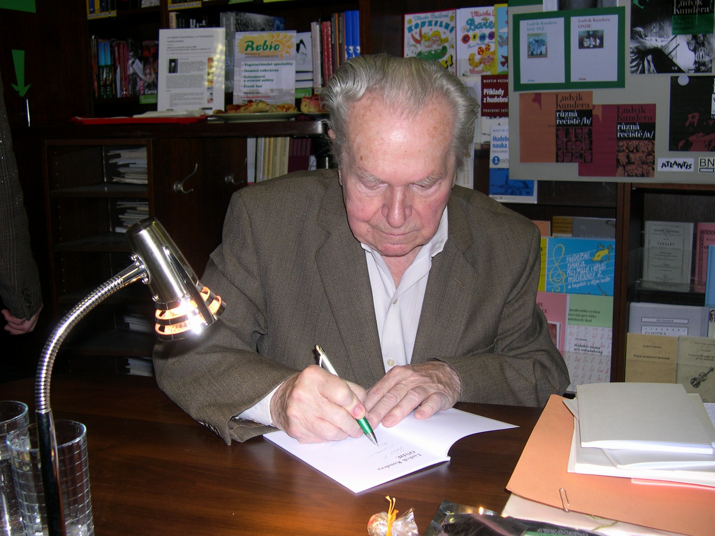 Image of deceased Czech writer Ludvík Kundera, autumn 2009